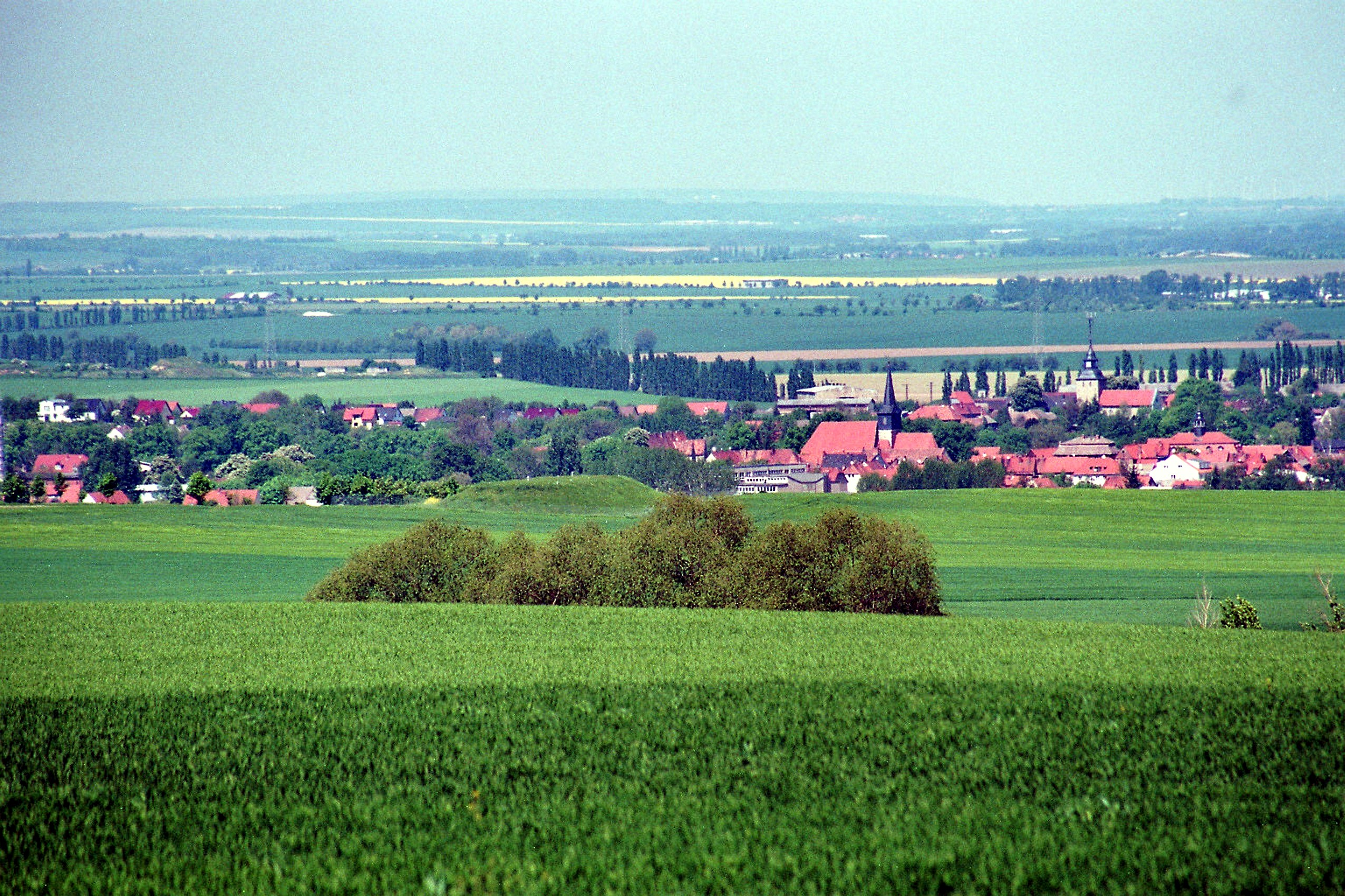 Ermsleben (Falkenstein im Harz), view to the town